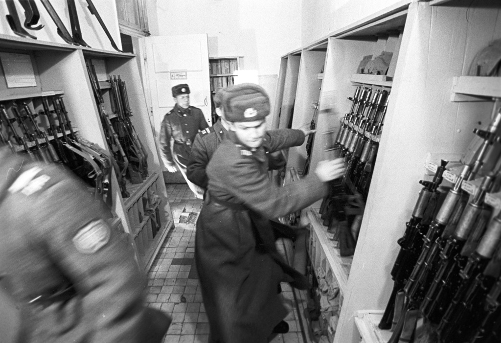 “Kombat alert at the Khorgos border post”. An alert at the KGB Khorgos border post in the Taldy Kurgan Region.